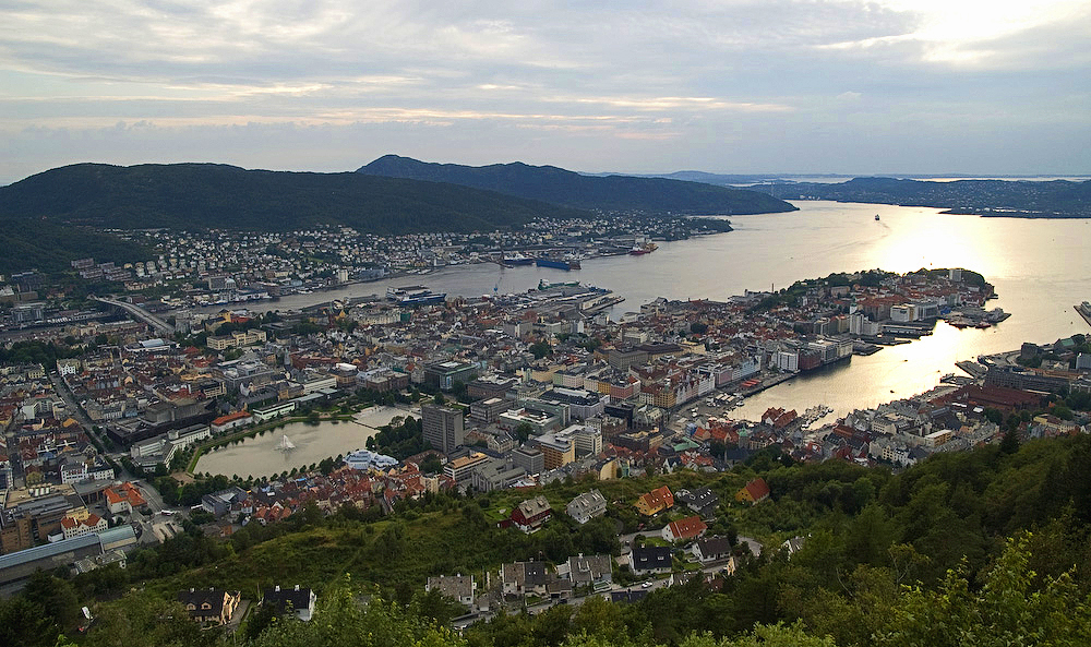 Edited version of Image:Fløyen view on Bergen.jpg. Original description: Bergen, Norway, as seen from Fløyen.